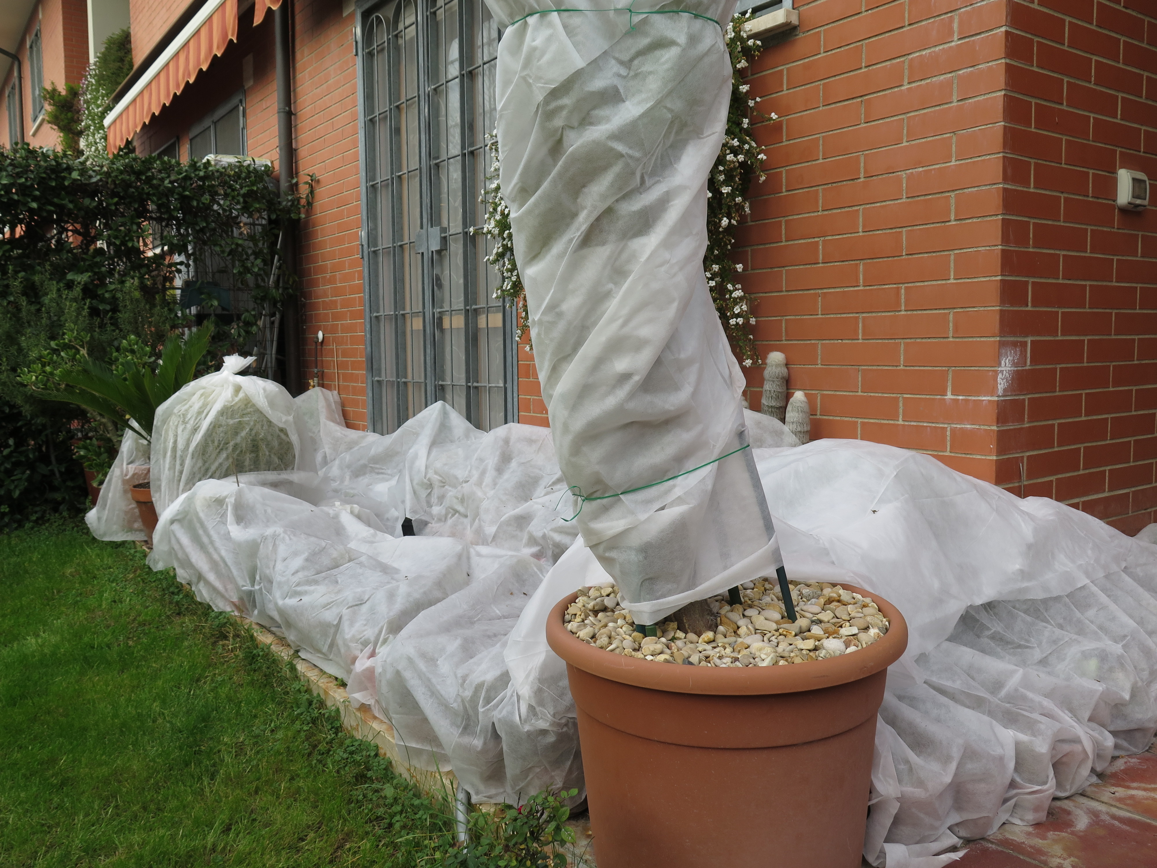 Winter cover of cactaceae with nonwoven fabric in Rome (IT)